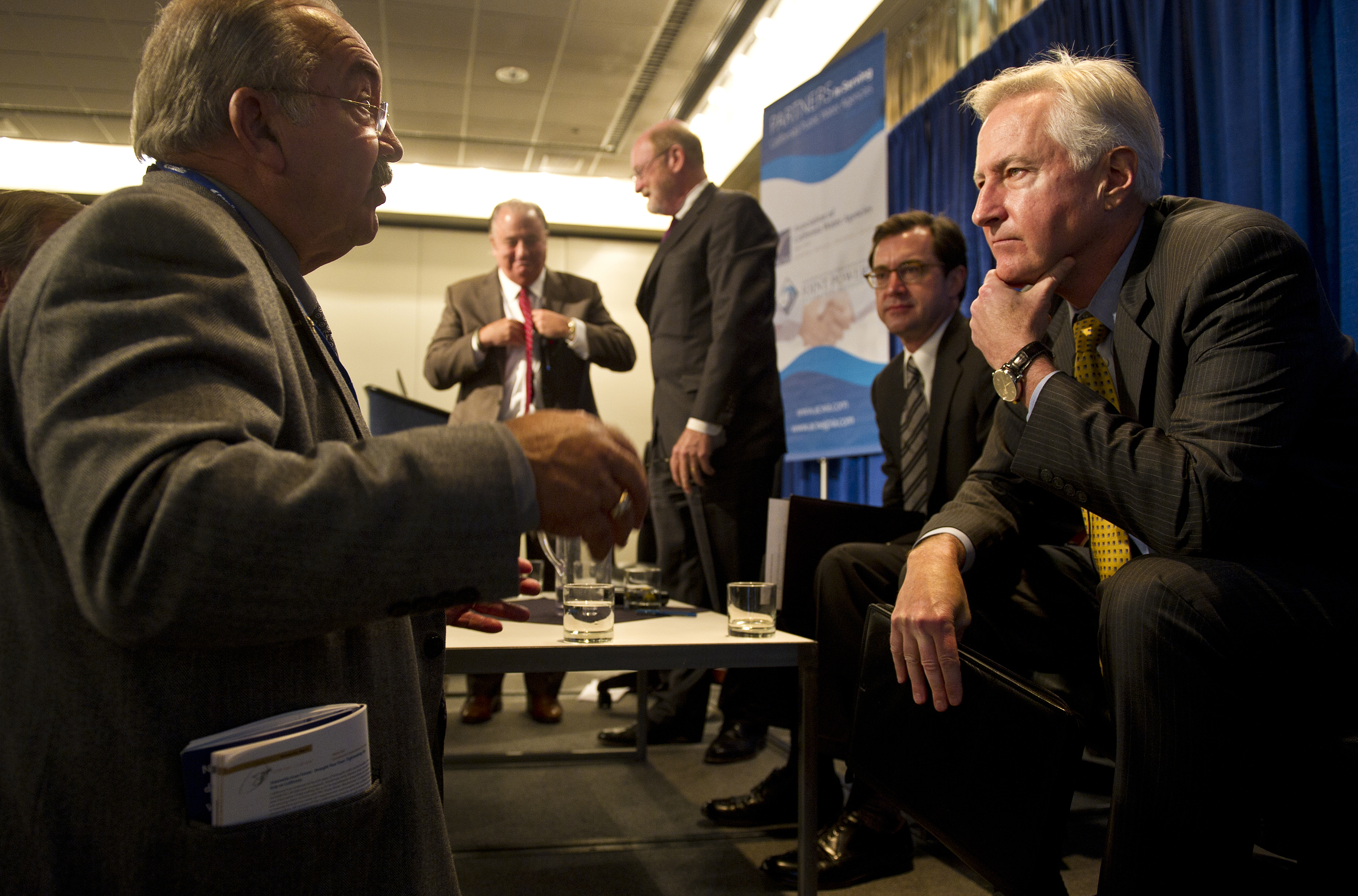 Right, Mark Cowin, Director, California Department of Water Resources talks with Dick Quigley, Director, Zone 7 Water Agency after a panel discussion at the Association of California Water Agenies' (ACWA) Spring Conference and Exhibition held at the Sacramento Convention Center. The group focused on the drought and its impact on the California economy and environment. Photo taken May 6, 2015.